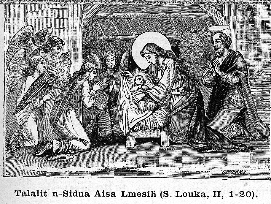 Birth of Jesus in a Kabyle Catholic book